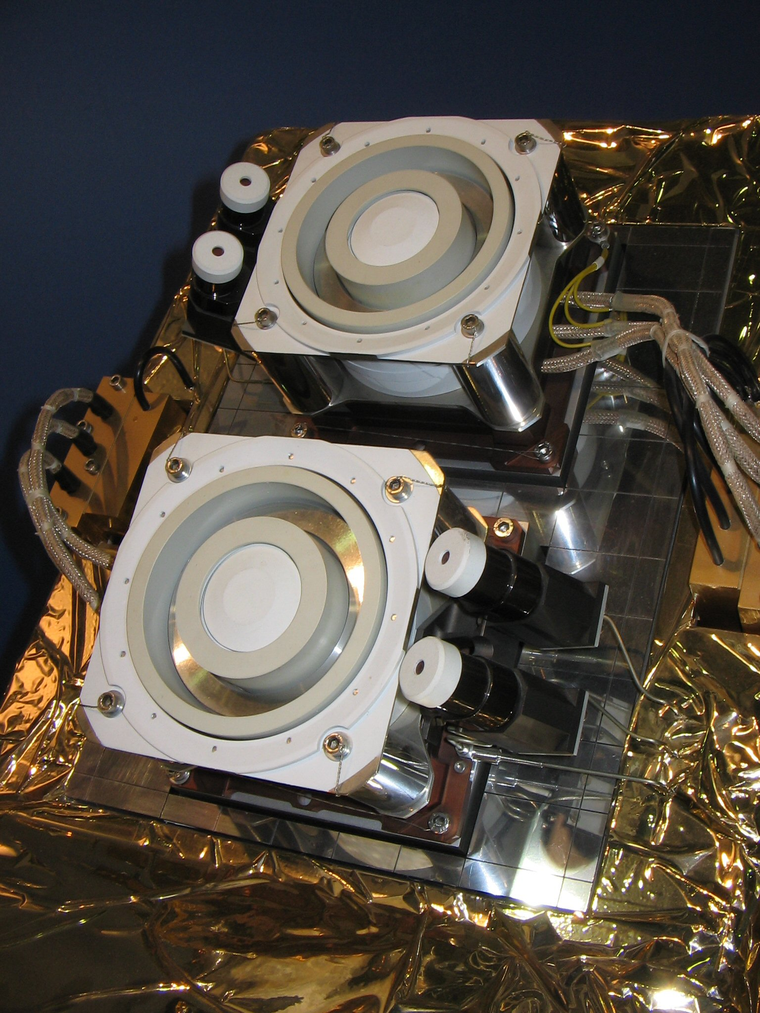 Plasma thruster Snecma PPS 1350